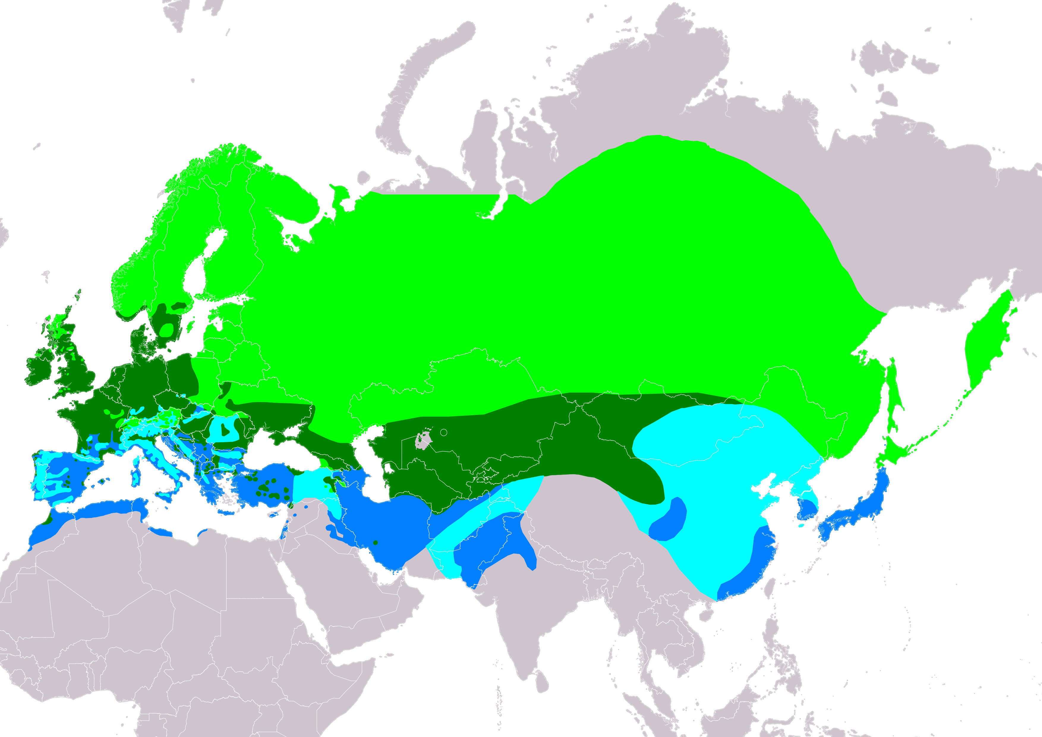 Distribution map of reed bunting (Emberiza schoeniclus) according to IUCN version 2019-3; key: Legend: Extant, breeding (#00FF00), Extant, resident (#008000), Extant, passage (#00FFFF), Extant, non-breeding (#007FFF)